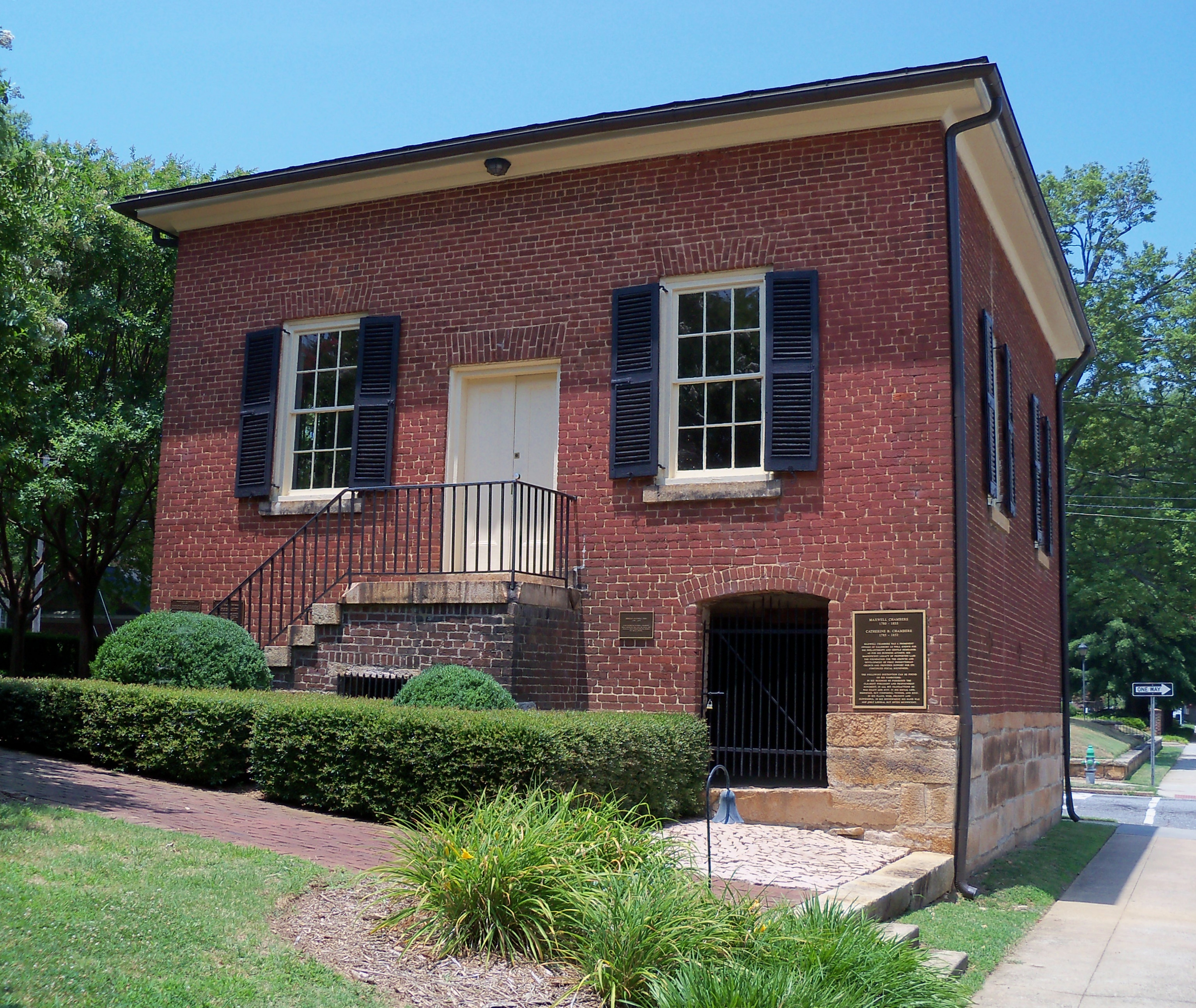 This photo is not of the Chambers house, but of the Presbyterian Session House, Salisbury, NC, a block away from the Chamber's home.Built on land donated by Maxwell Chambers. The meeting house was built in 1855 for the Presbyterian Church over the grave site of the Maxwell Chambers' family as specified in his will. The 10 graves behind the stone walls can be seen through a locked gate in the foundation on the east side of the building.